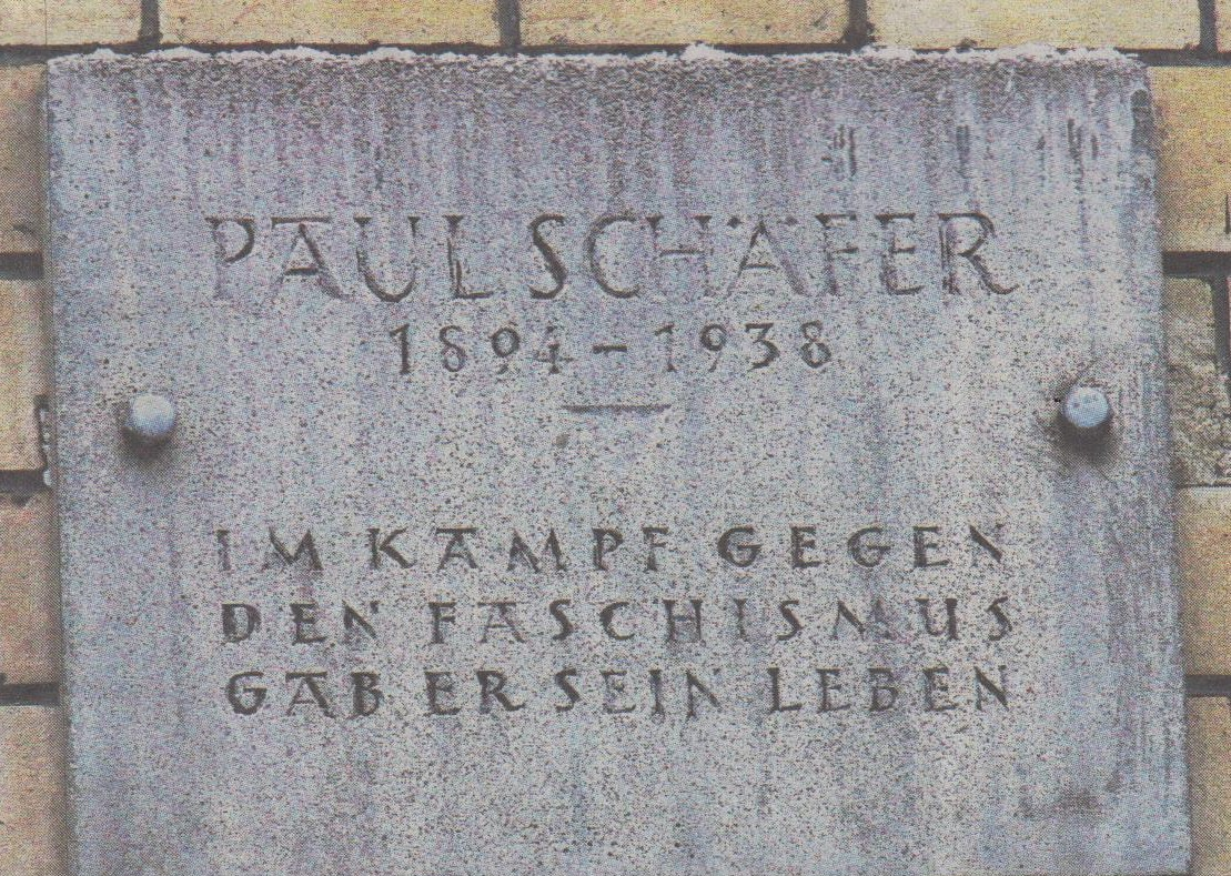 Plaque at House of Paul Schäfer in Erfurt until 2018